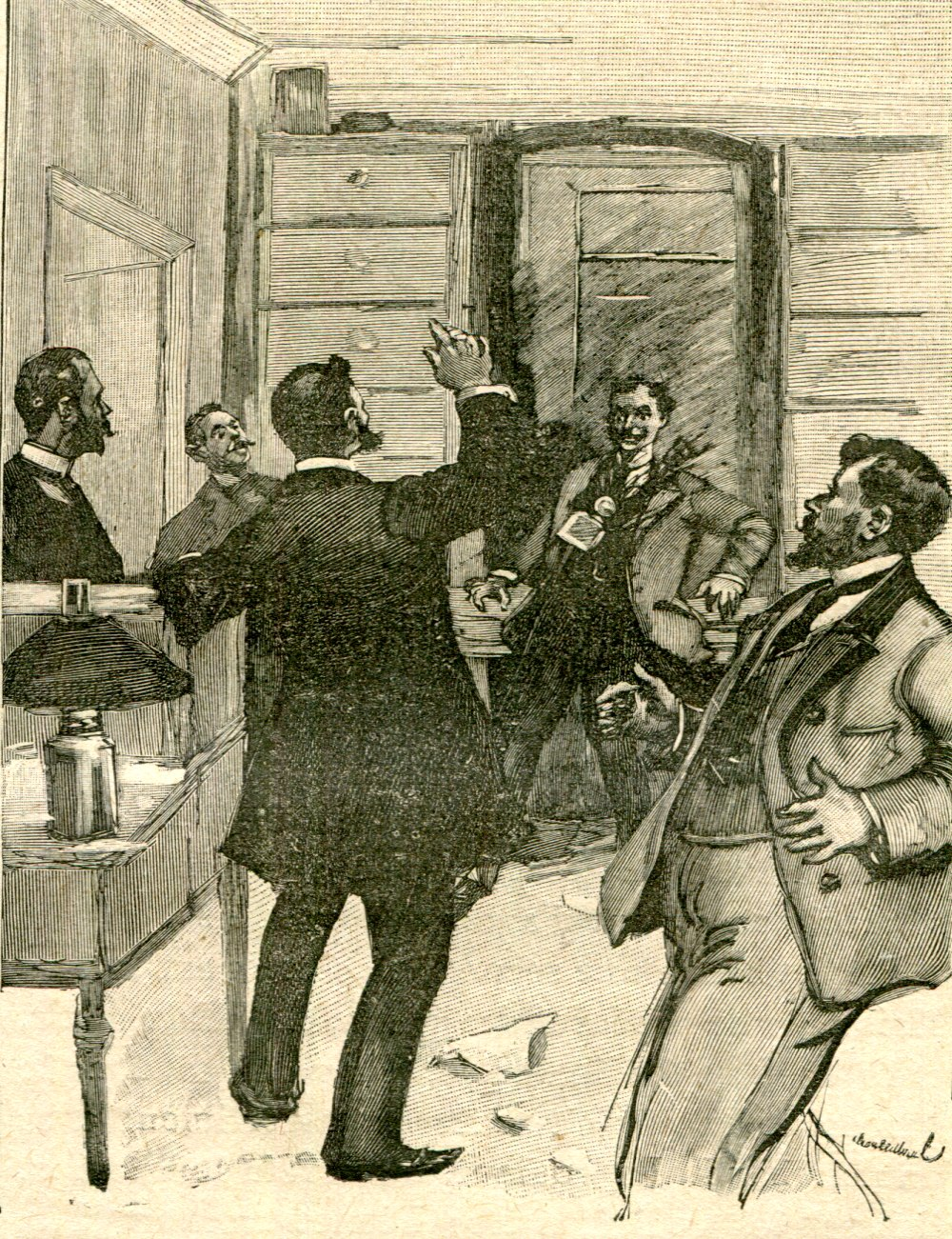 Illustration for the story "L'Heritage" by G. de Maupassant (from the collection "Miss Harriet")